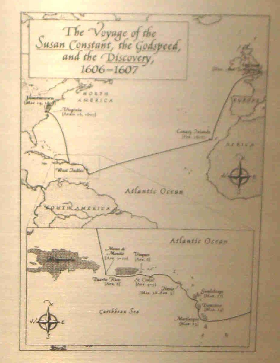 Marker in Puerto Rico which traces the routes taken by the Godspeed, Susan Constant and the Discovery and which commemorates their stopping in Puerto Rico from April 5-10, 1607 on their way to Virginia. Plaque: In regard to the Marker's content